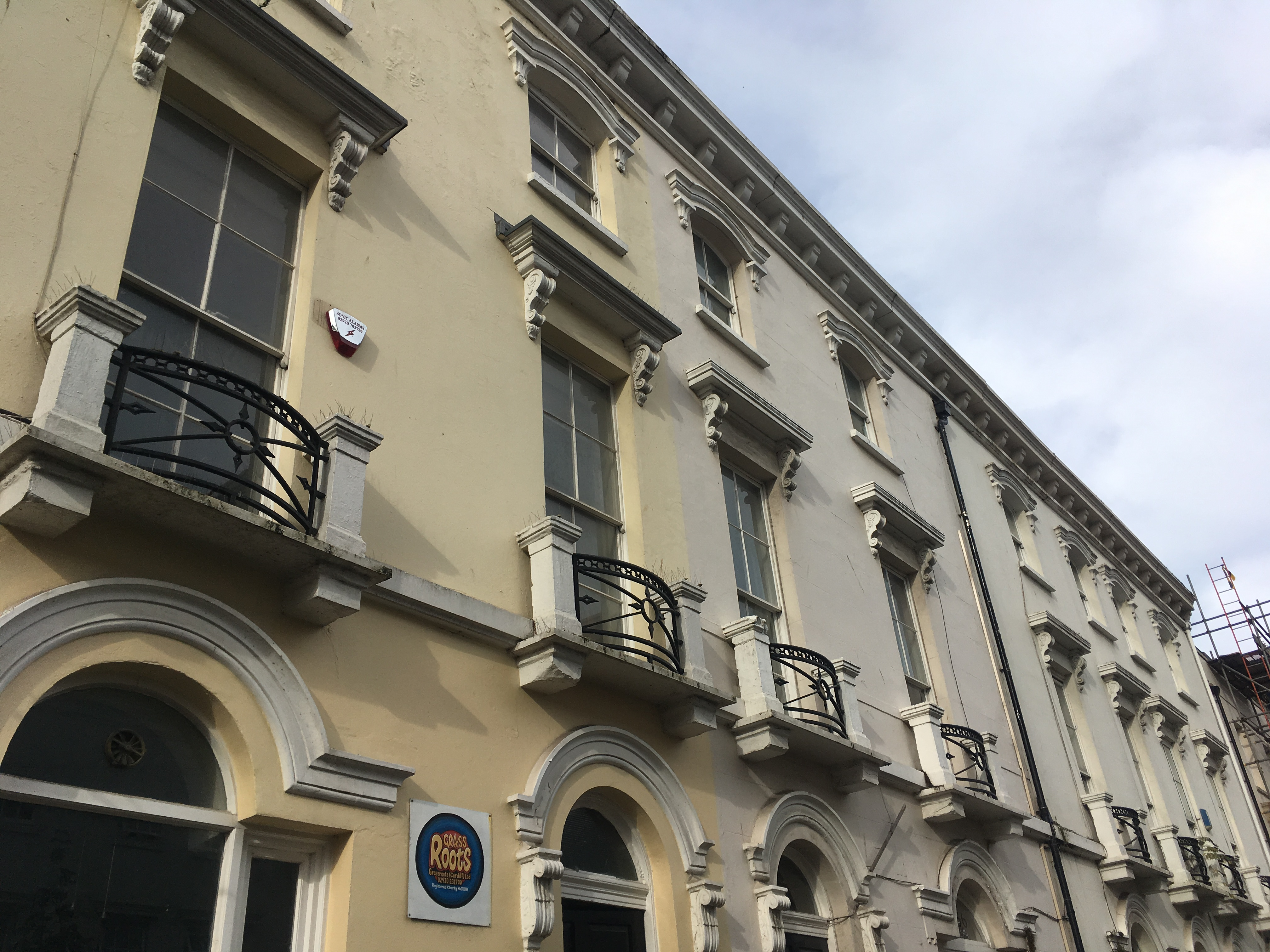 52-62 Charles Street Wikidata has entry Q29499022 with data related to this item.